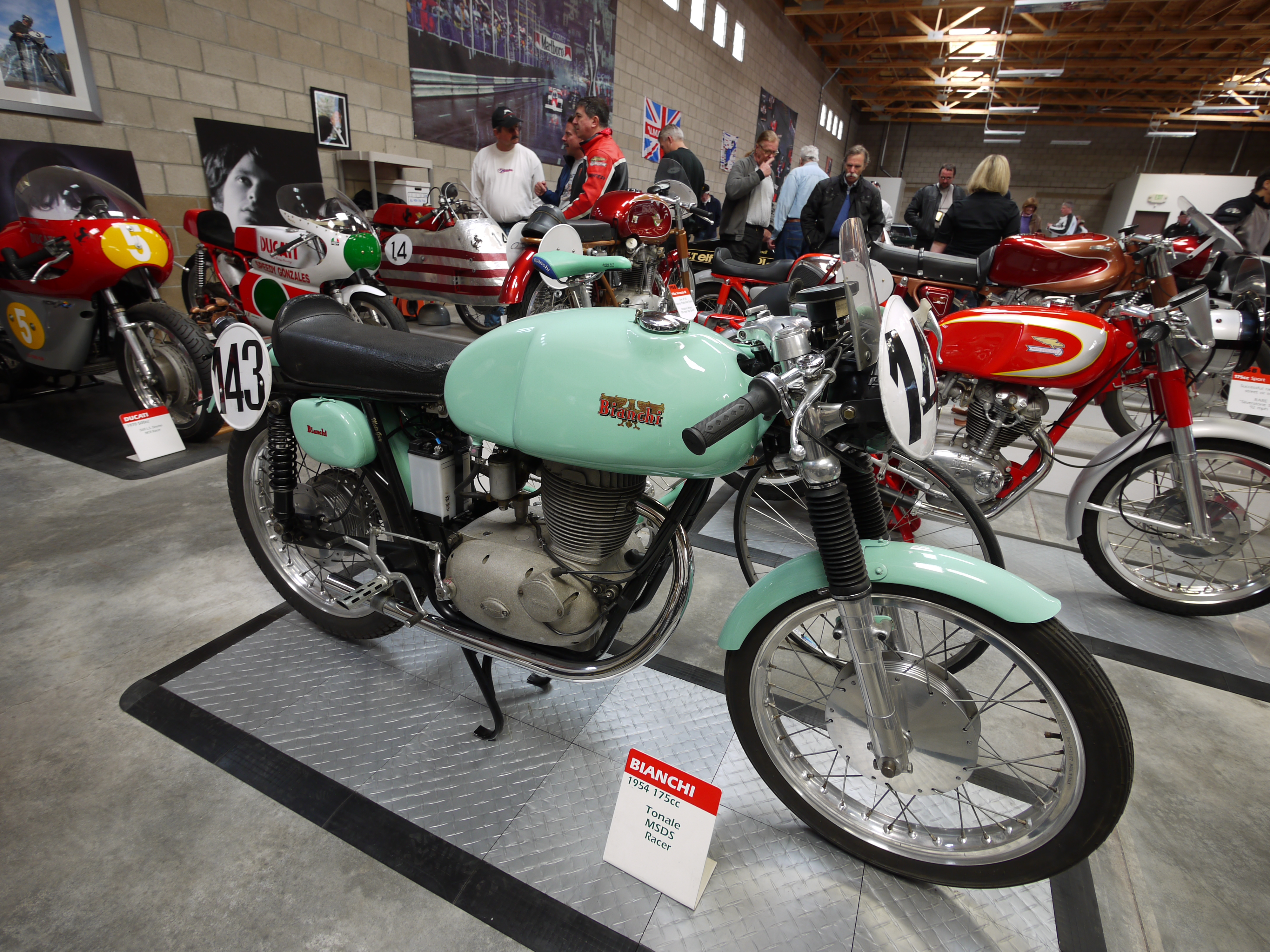 Bianchi 175 Tonale Racer, MSDS, 1954